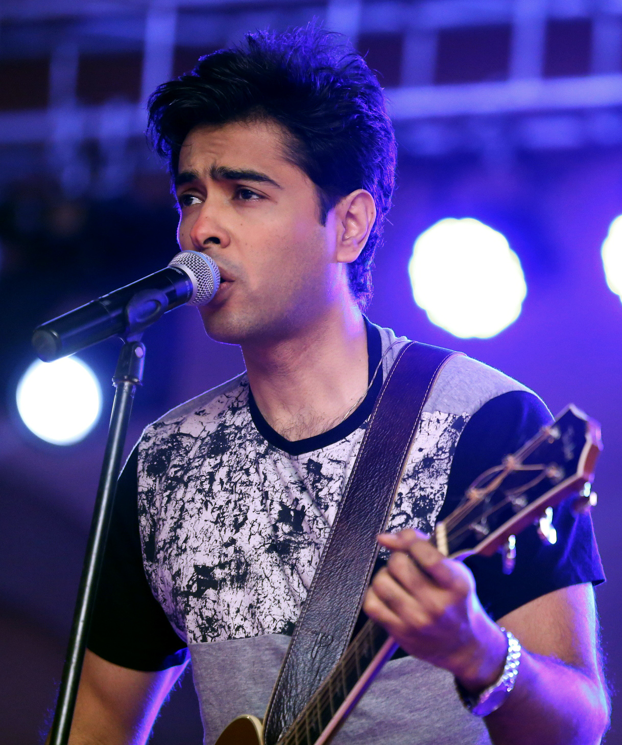 Musical Performance by Shahzad Roy. The United States and Aurat Foundation celebrate completion of the Gender Equity Program.